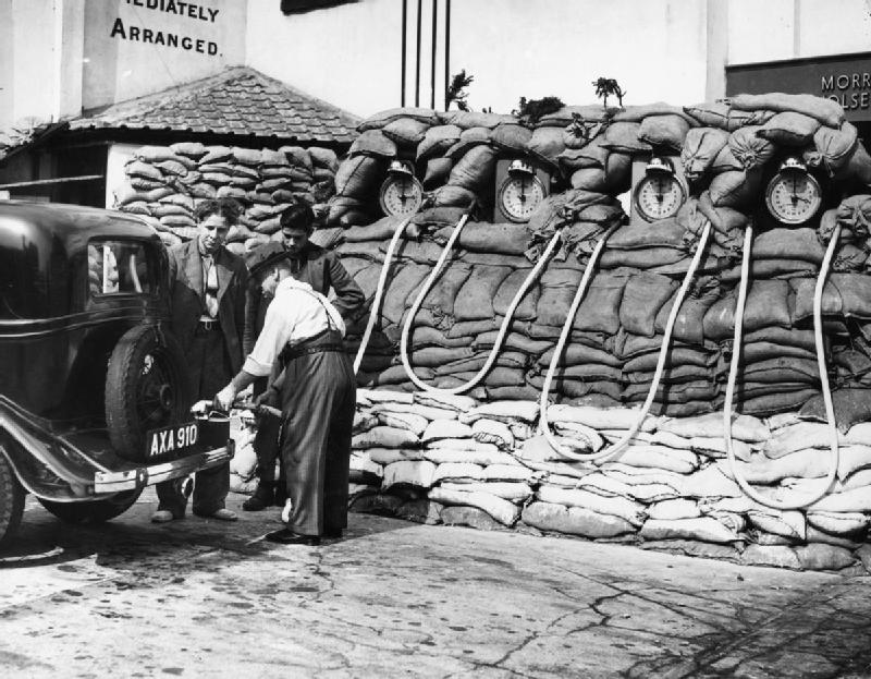 Air Raid Precautions in London, 1939 Sandbagged petrol pumps at West Hill, Wandsworth, London.